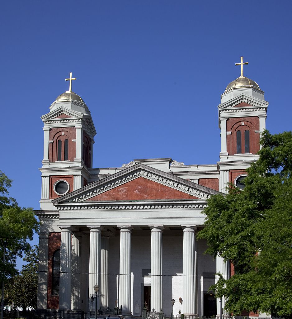 Title: Cathedral Basilica of the Immaculate Conception is a cathedral serving Roman Catholics in Mobile, Alabama. Physical description: 1 photograph : digital, tiff file, color. Notes: Gift; George F. Landegger; 2010; (DLC/PP-2010:090).; Forms part of: George F. Landegger Collection of Alabama Photographs in Carol M. Highsmith's America Project in the Carol M. Highsmith Archive.; Credit line: The George F. Landegger Collection of Alabama Photographs in Carol M. Highsmith's America, Library of Congress, Prints and Photographs Division.; Title, date and keywords based on information provided by the photographer.